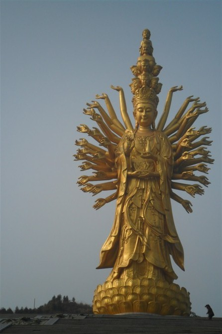 The Guishan Guanyin of the Thousand Hands and Eyes at Miyin Temple, in Ningxiang County, Hunan province, China